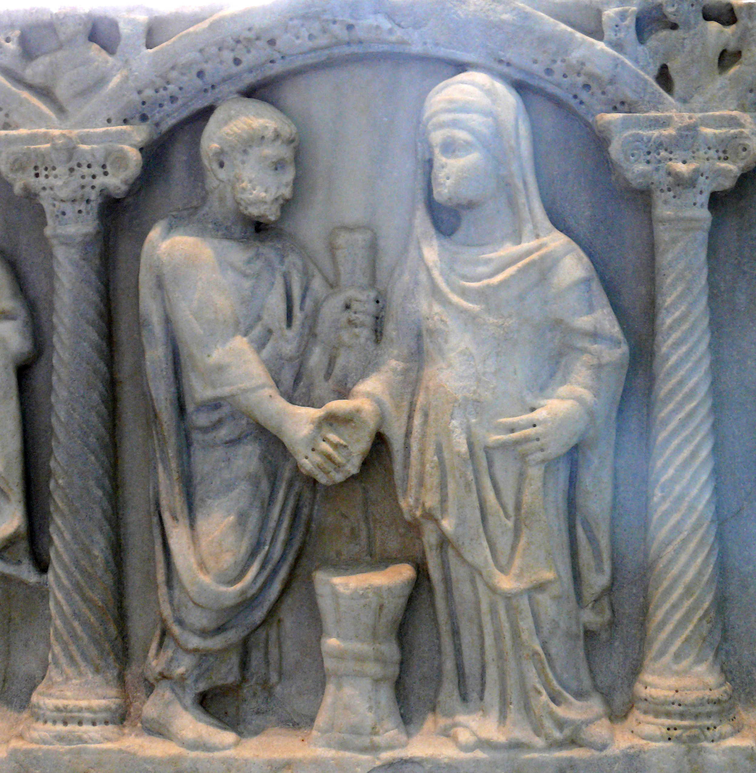 Sarcophagus of the Dioscures, detail depicting a marriage. Marble, latter part of 4th century. Musée de l'Arles et de la Provence antiques FAN92.00.2482